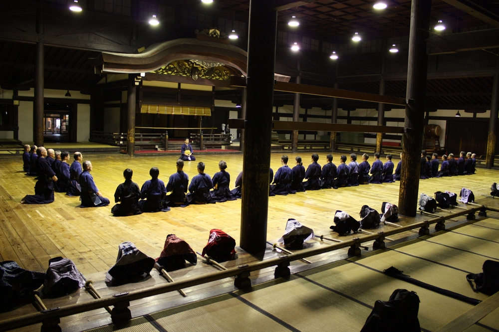 Kendo in Kyu-Butokuden, Kioto